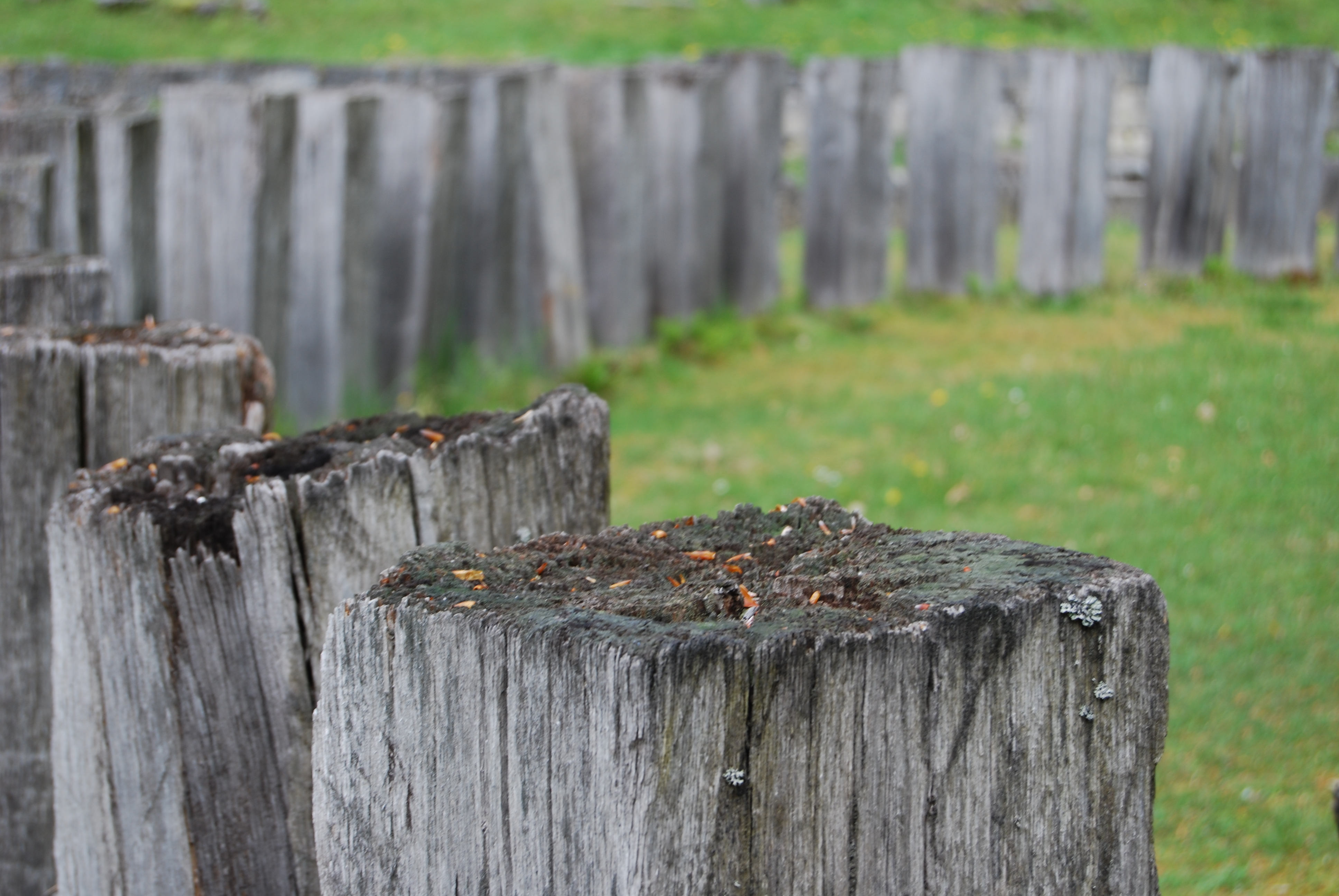 Artistic picture from Sarmizegetusa Regia (Romanian archeological site) with the wood pillars of the sanctuary